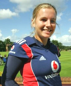 Holly Colvin 3rd ODI vs South Africa, Shenley